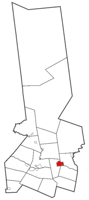 Map of Herkimer County highlighting Little Falls (city)